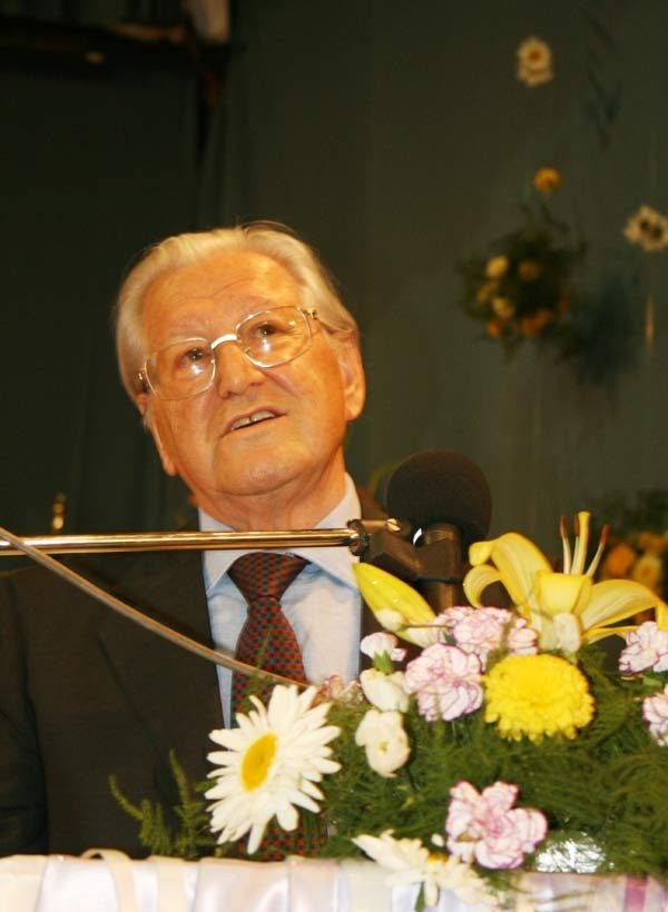 Prof,_Hossein_Sadeghi_(_Husayn_Sadighi)_in_Simorgh_Culturehouse-nishapur